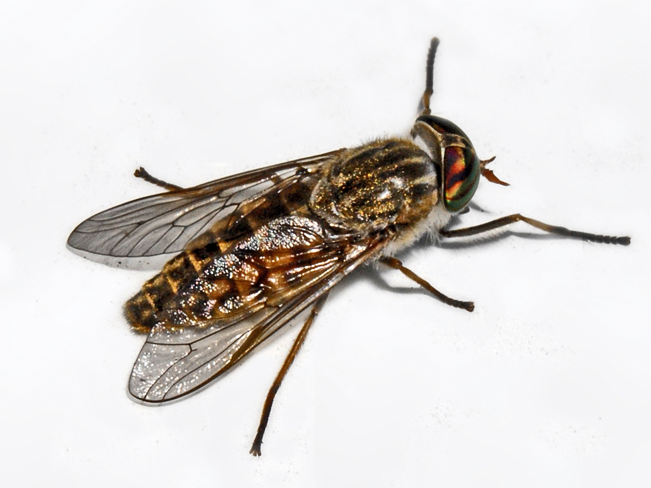 Tabanus glaucopis (cf.). Alessandria, Italy